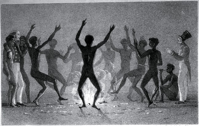 Dance of the Aborigines of Raffles Bay